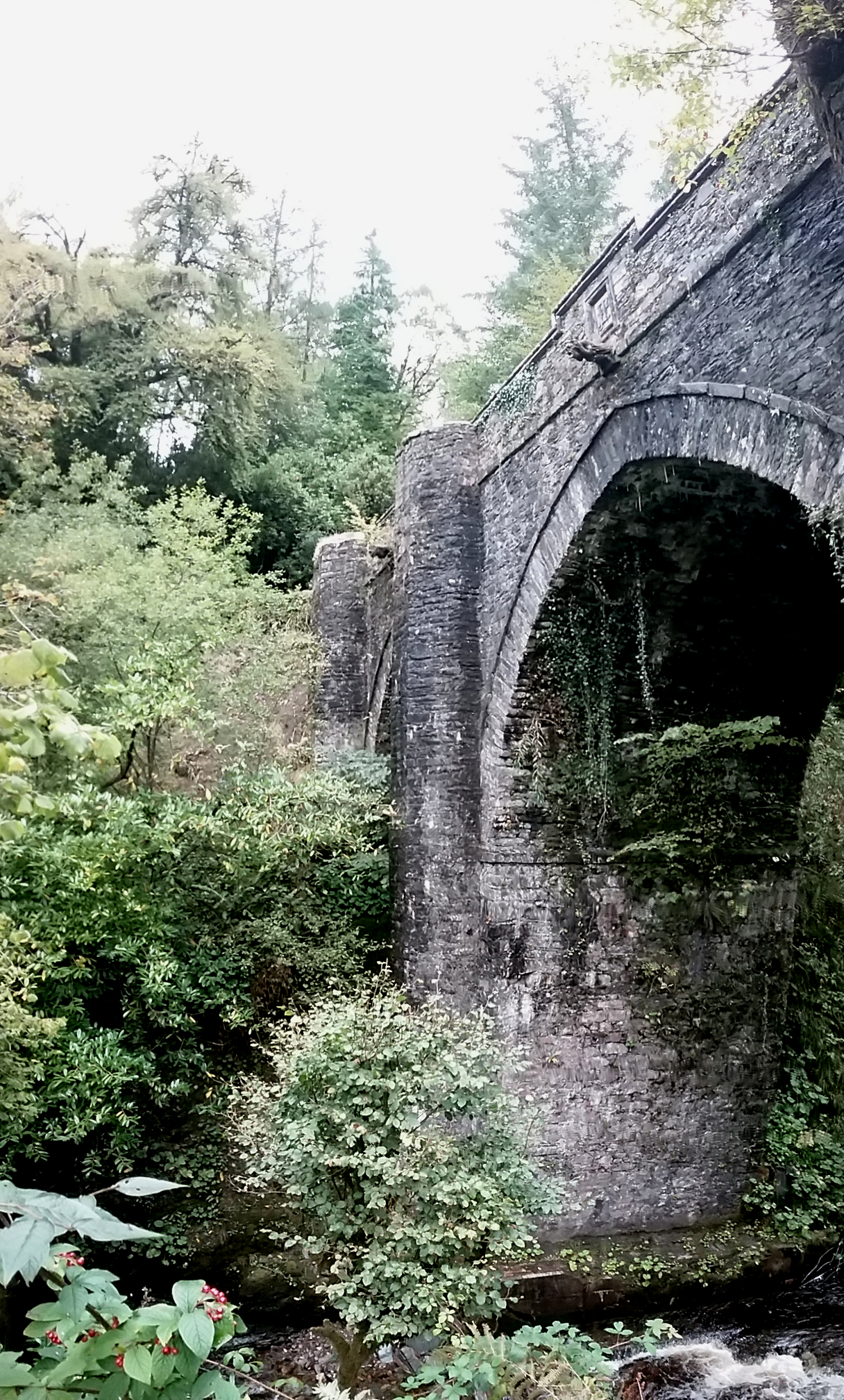 Center arch of Dunans Bridge, taken from the downstream side in September 2019. "Hear no Evil" gargoyle over the arch, below the "JF" stone.